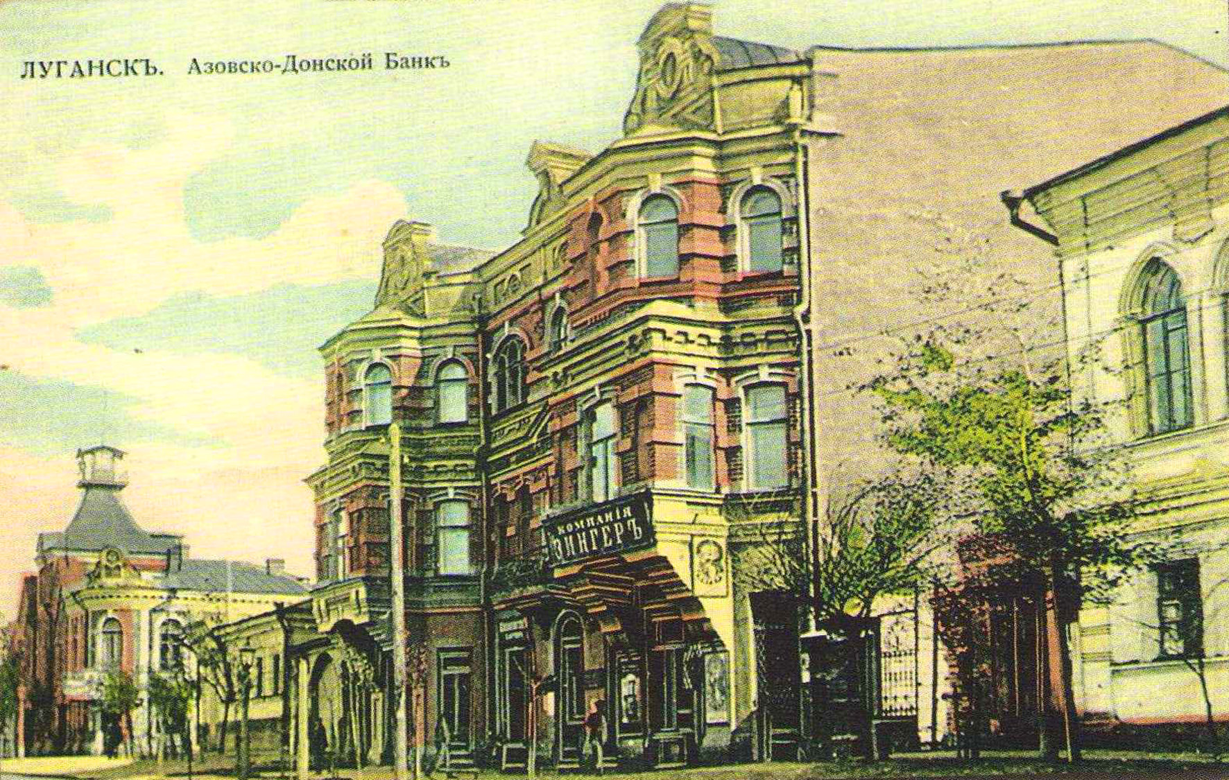 Azov-Don Bank.